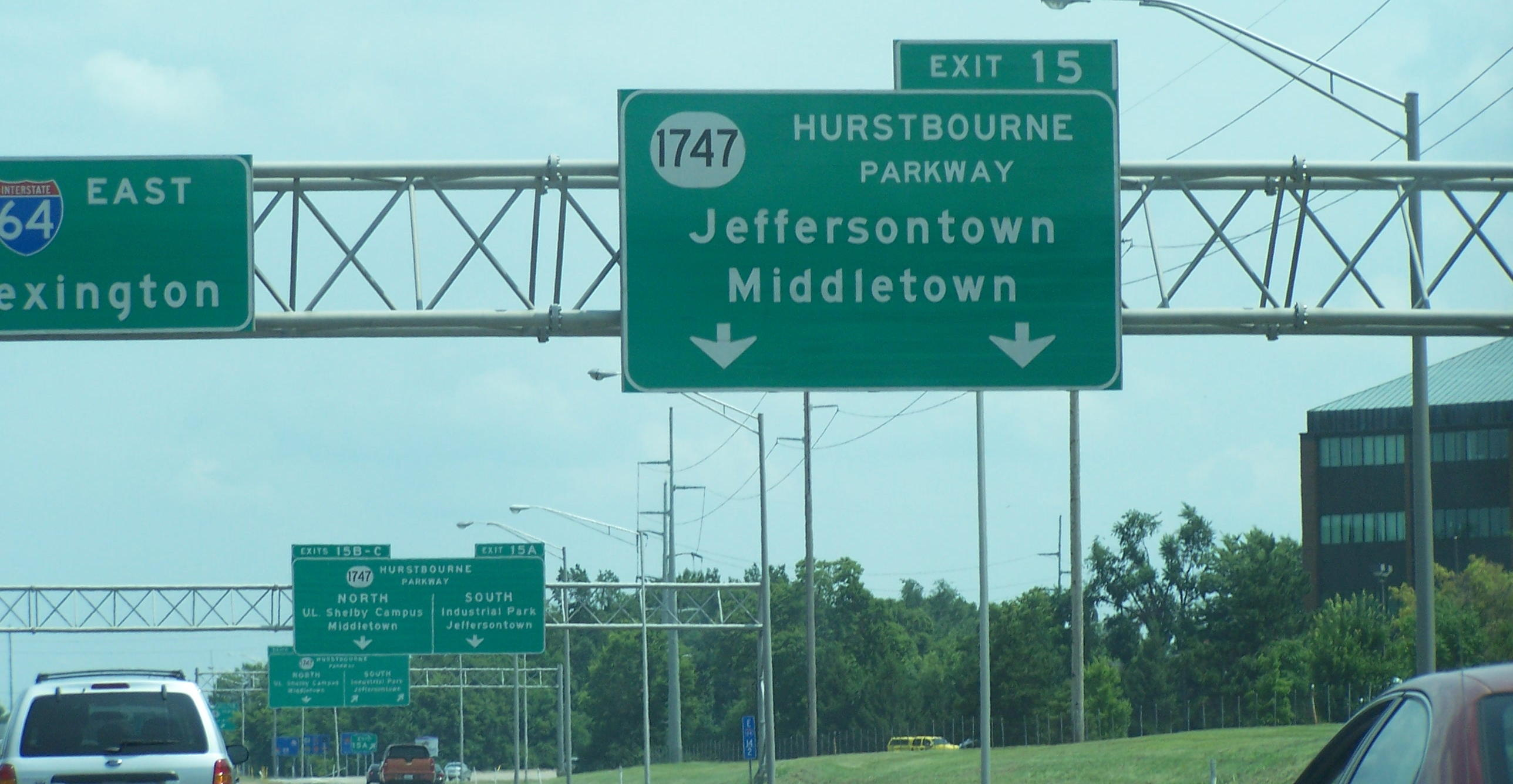 Sign for Kentucky Route 1747 from Interstate 64.